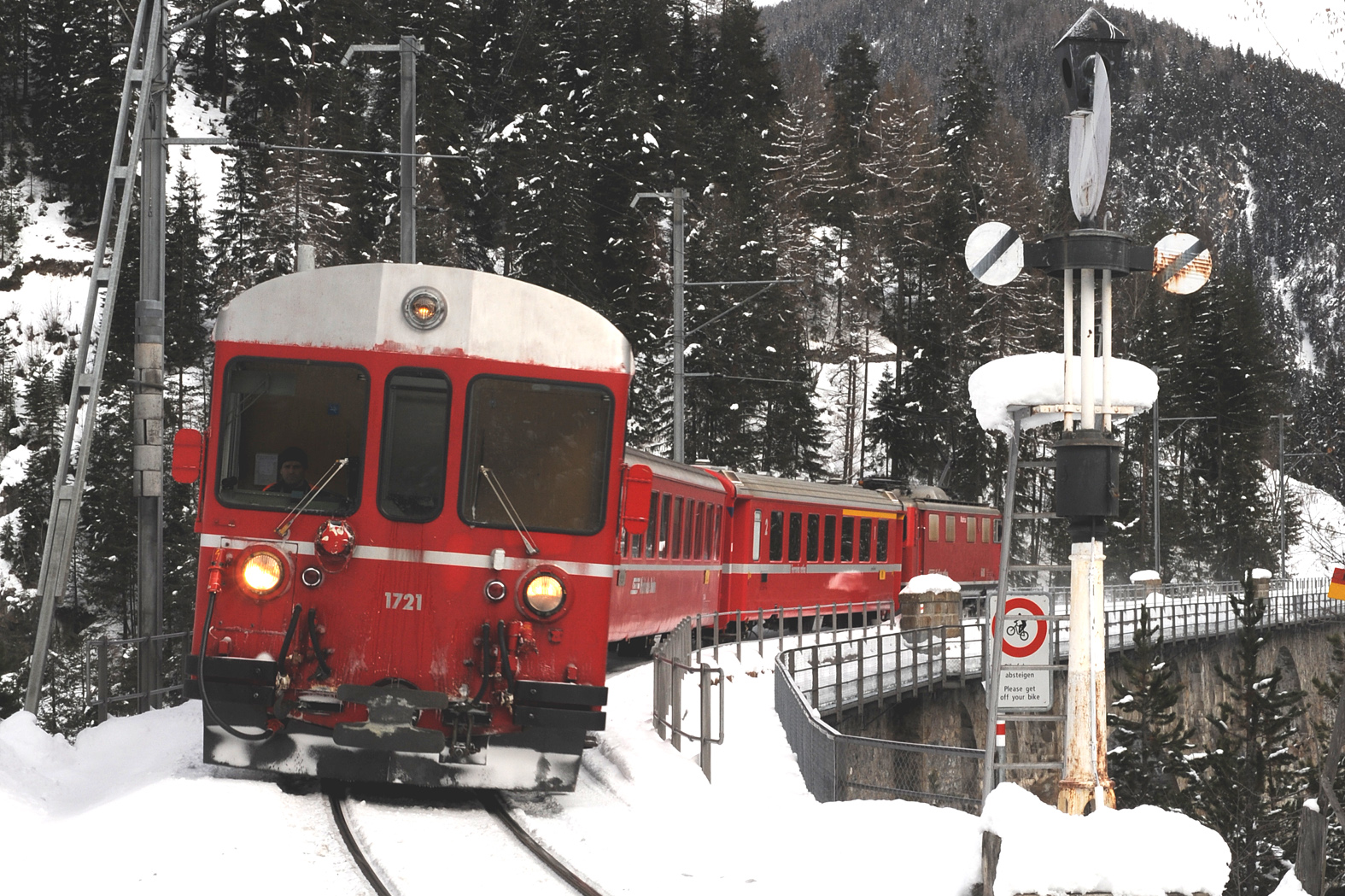 Home signal (inoperative) Wiesen Station RhB, from direction Filisur with leaving control cab coach BDt 1721 in front.